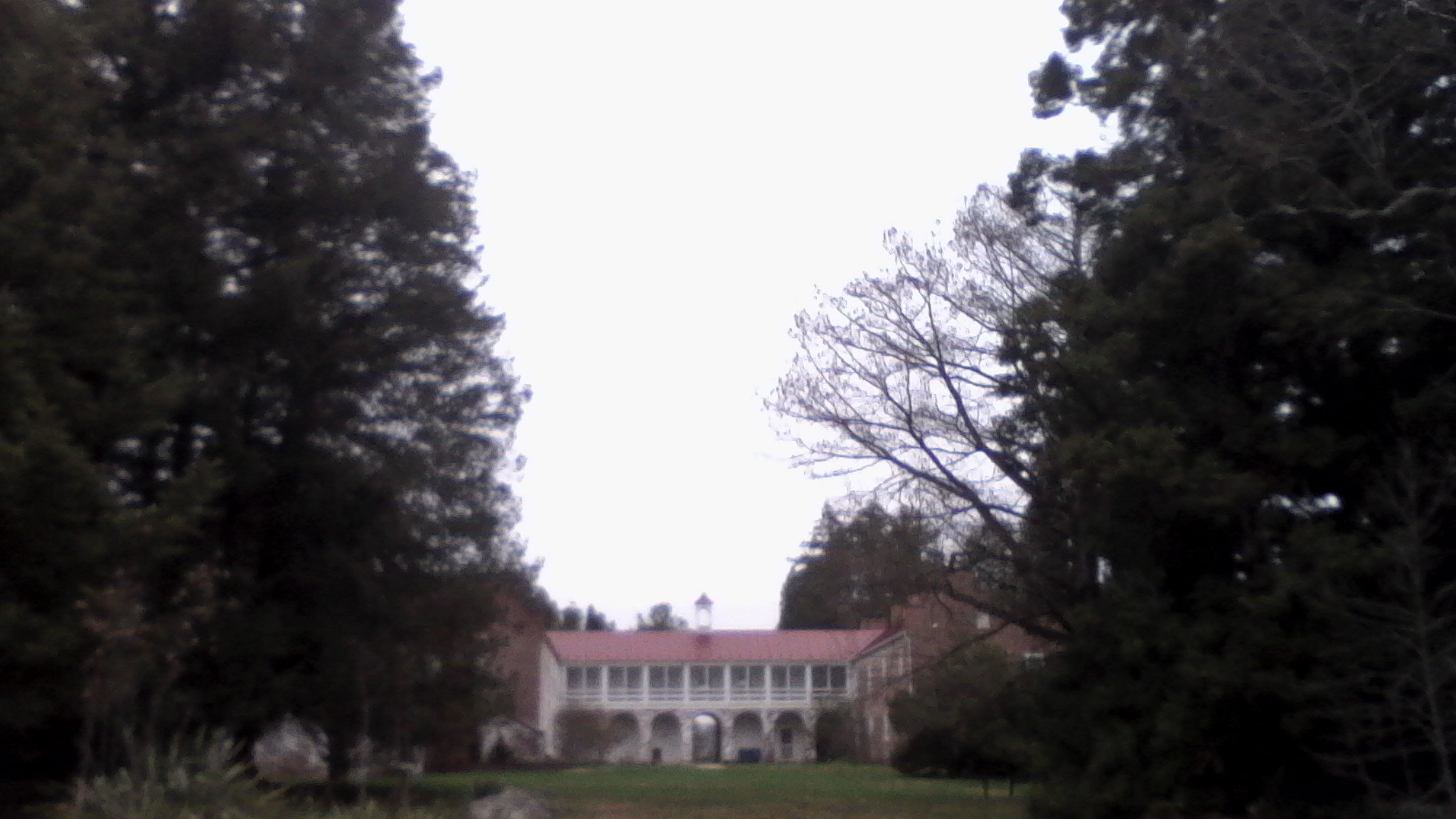 Blandy Quarters from back pond